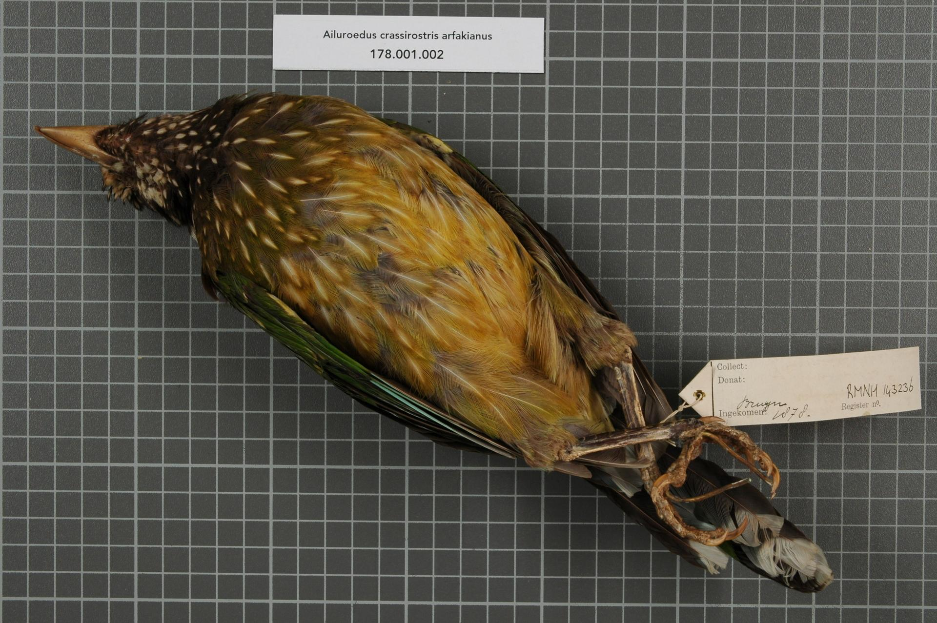 Ailuroedus crassirostris arfakianus A.B. Meyer, 1874